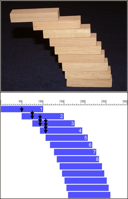 Example of the application of the harmonic series to a cantilever: blocks aligned according to harmonic series bridges cleavages of any width.